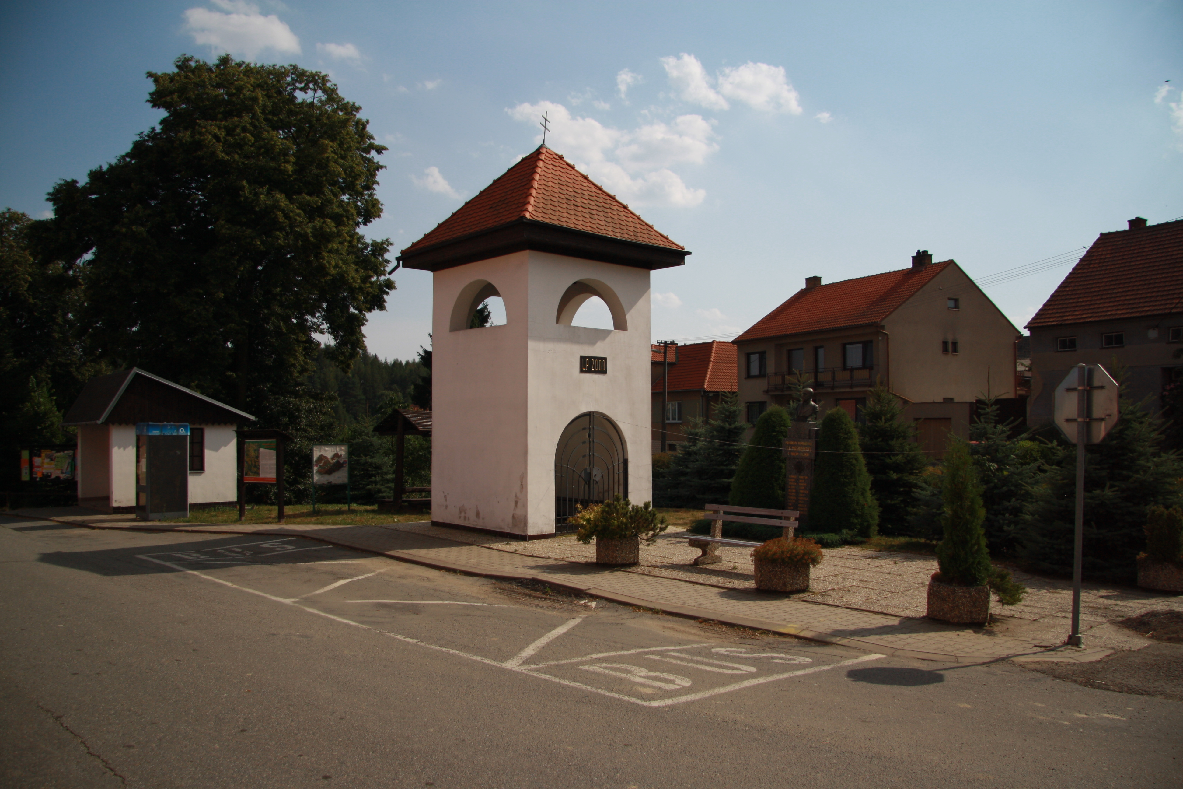 Center of Pucov in 2013, Třebíč District.